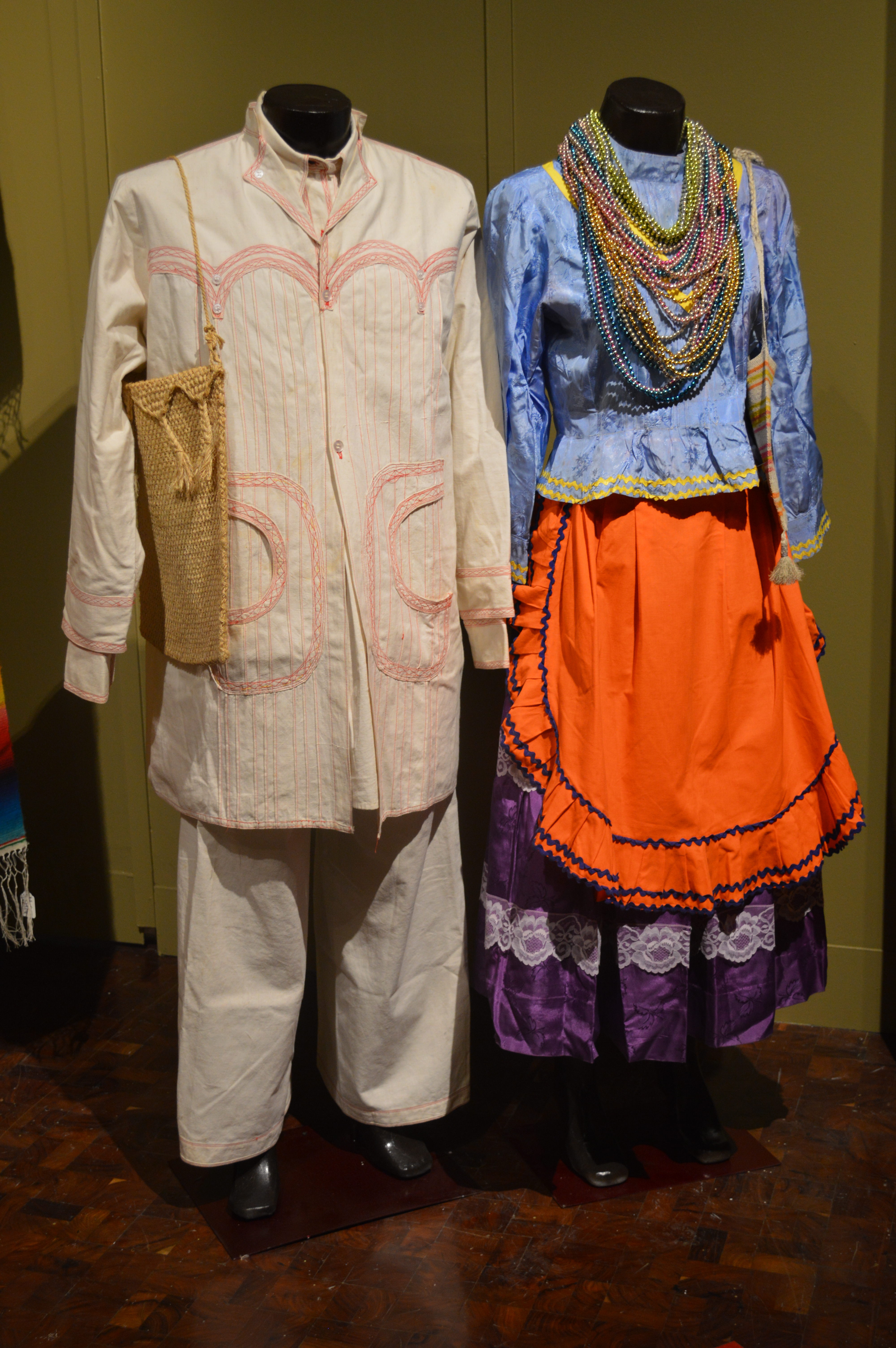 Tepehuano traditional dress for men and women from Durango at the El Norte, su materia, su artesania at the Museo de Arte Popular in Mexico City